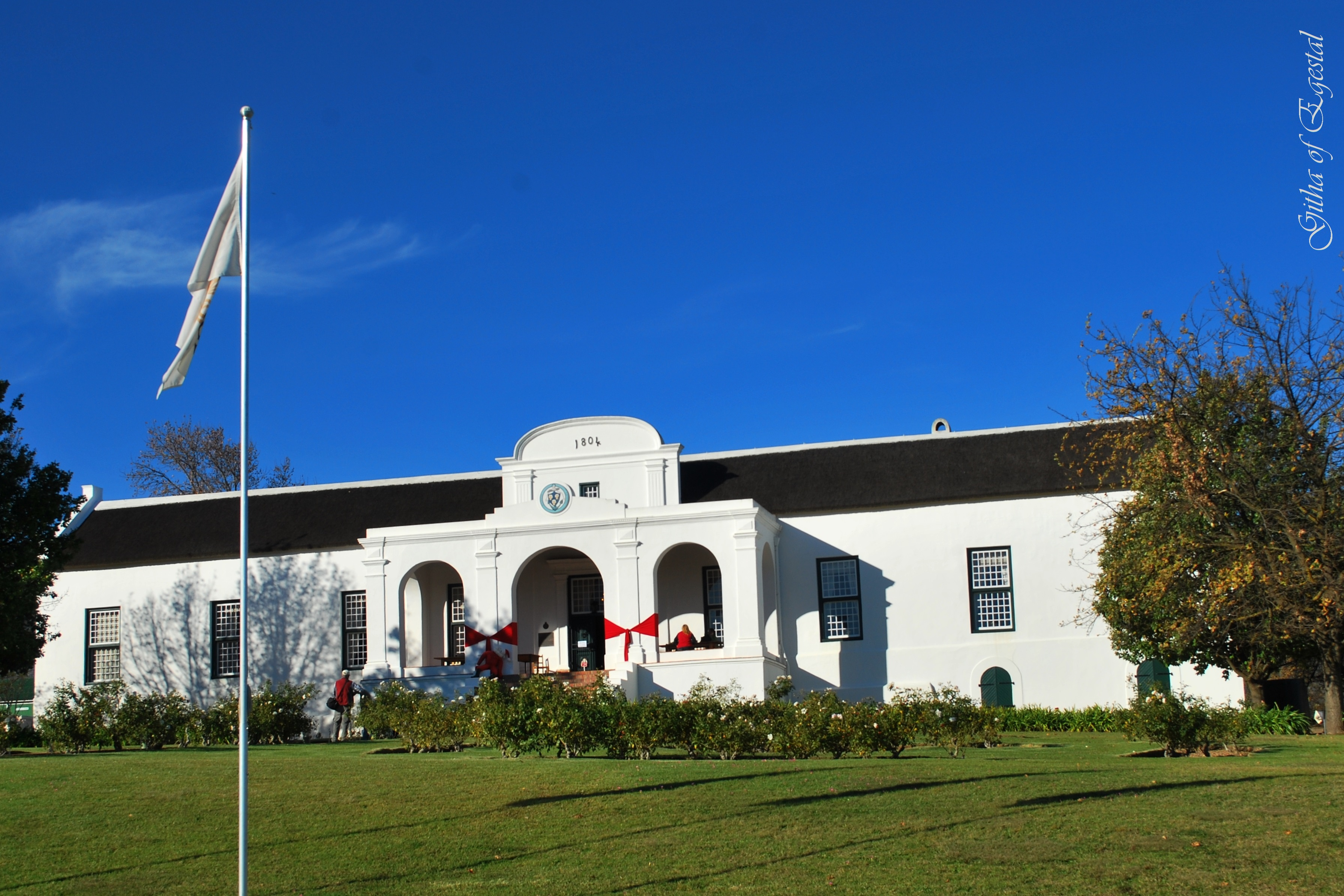 Drostdy, Tulbagh This media shows a South African Protected Site with SAHRA file reference 9/2/094/0001.